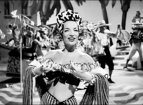 Carmen Miranda in the 1946 film Doll Face